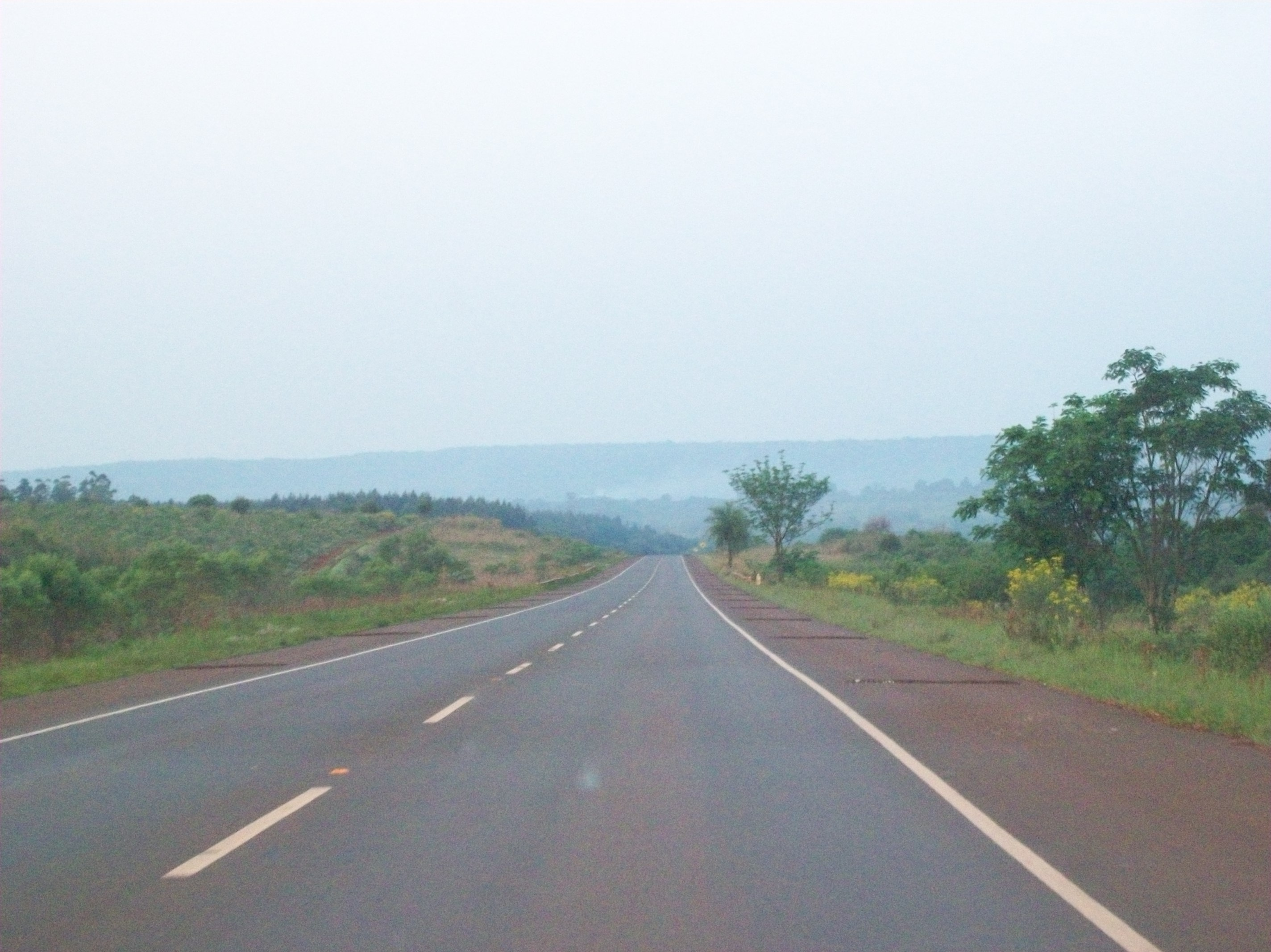 Ruta Nacional 14 near the border between Corrientes and Misiones, Argentina. At the center, Sierra de Misiones.